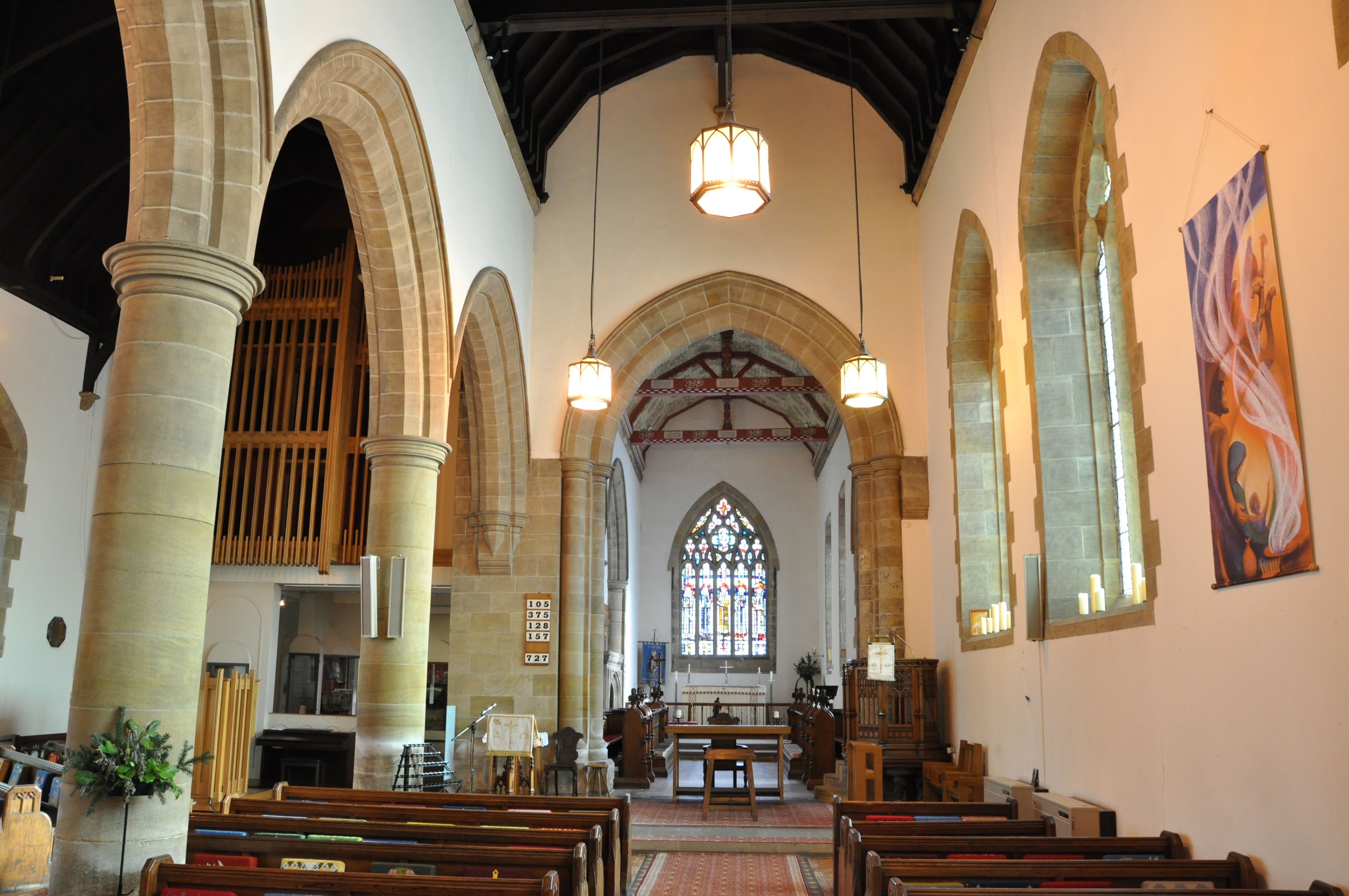 Inside the nave of St Peter's parish church, Monkwearmouth, Tyne and Wear, looking east to the chancel, with the north aisle on the left